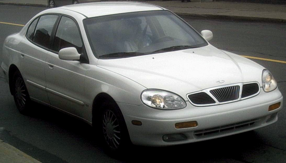 1997-2002 Daewoo Leganza photographed in Montreal, Quebec, Canada.